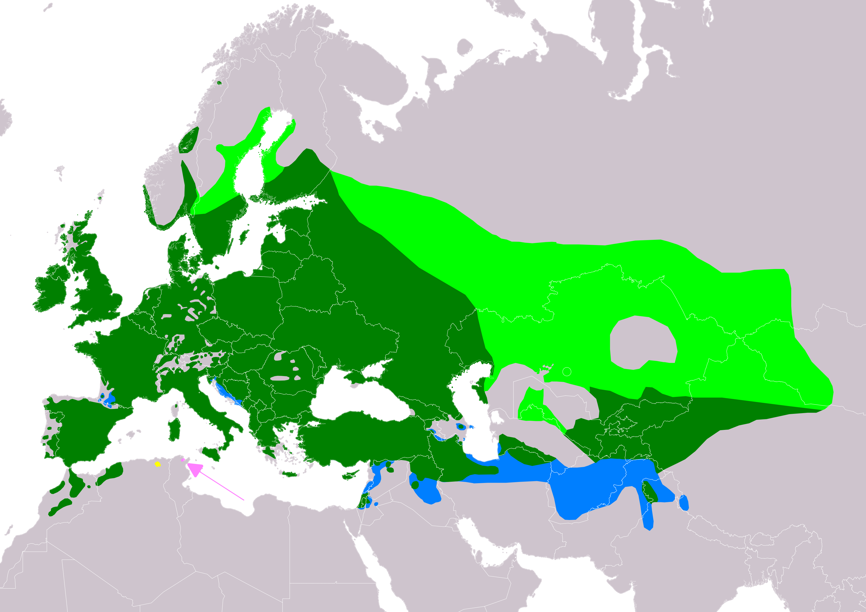 Distribution map of western jackdaw (Coloeus monedula) according to IUCN version 2019-2; key: Legend: Extant, breeding (#00FF00), Extant, resident (#008000), Extant, non-breeding (#007FFF), , Extant & Introduced (resident) (#FFFF00), , Extinct & Introduced (#FF80FF)